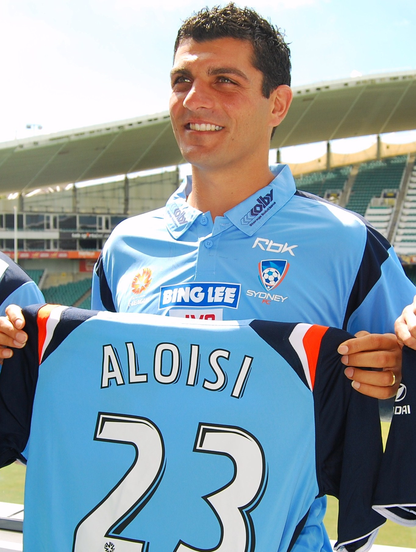 John Aloisi signs for Sydney FC